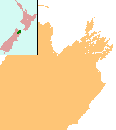 Locator map for Marlborough, New Zealand